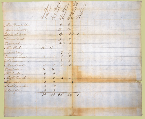 1800 electoral tally. Held by US NARA Textual Records. Copied from EN Wiki.